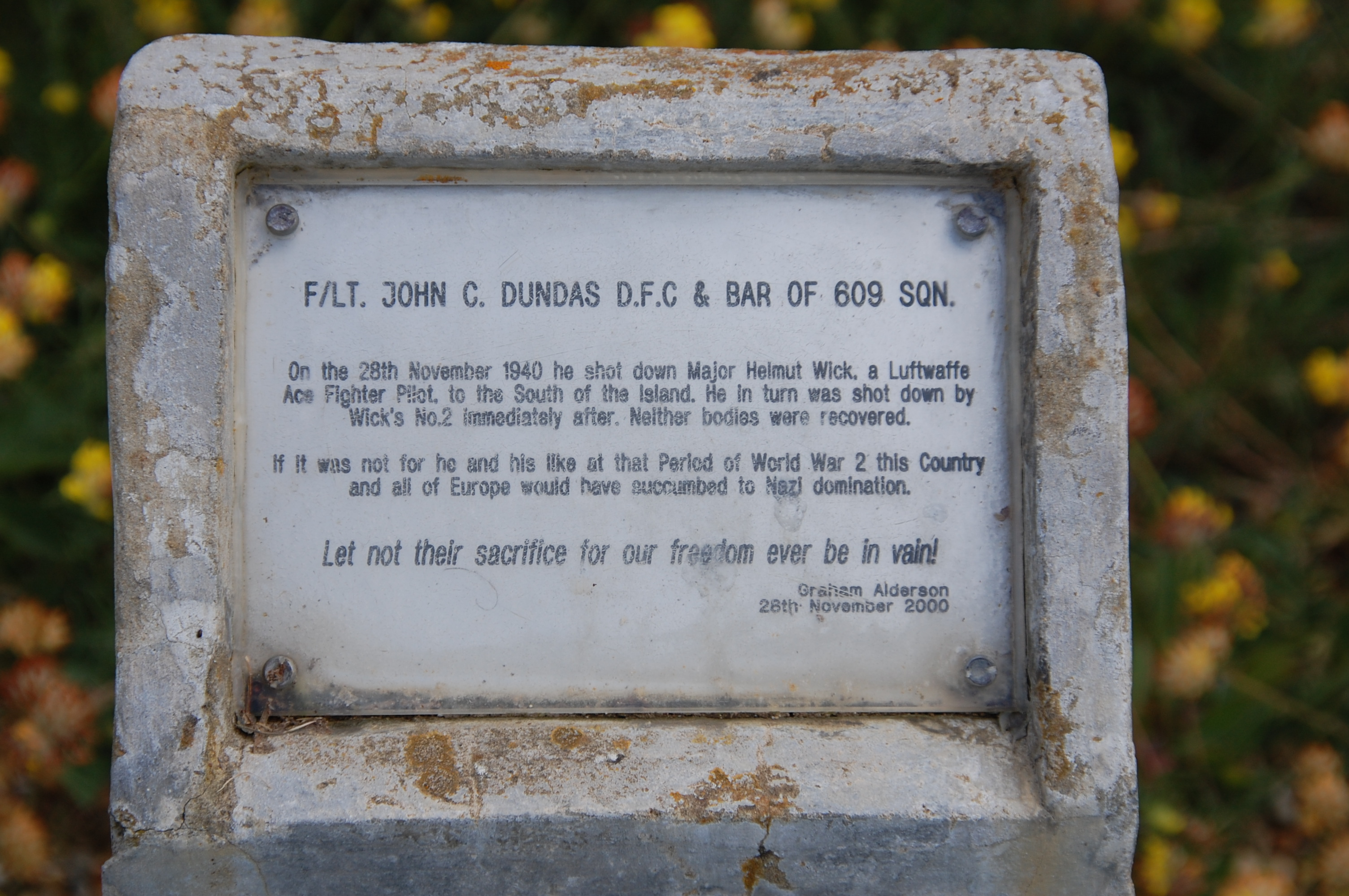 Memorial to Second World War fighter ace F/LT John C Dundas on the Isle of Wight, United Kingdom